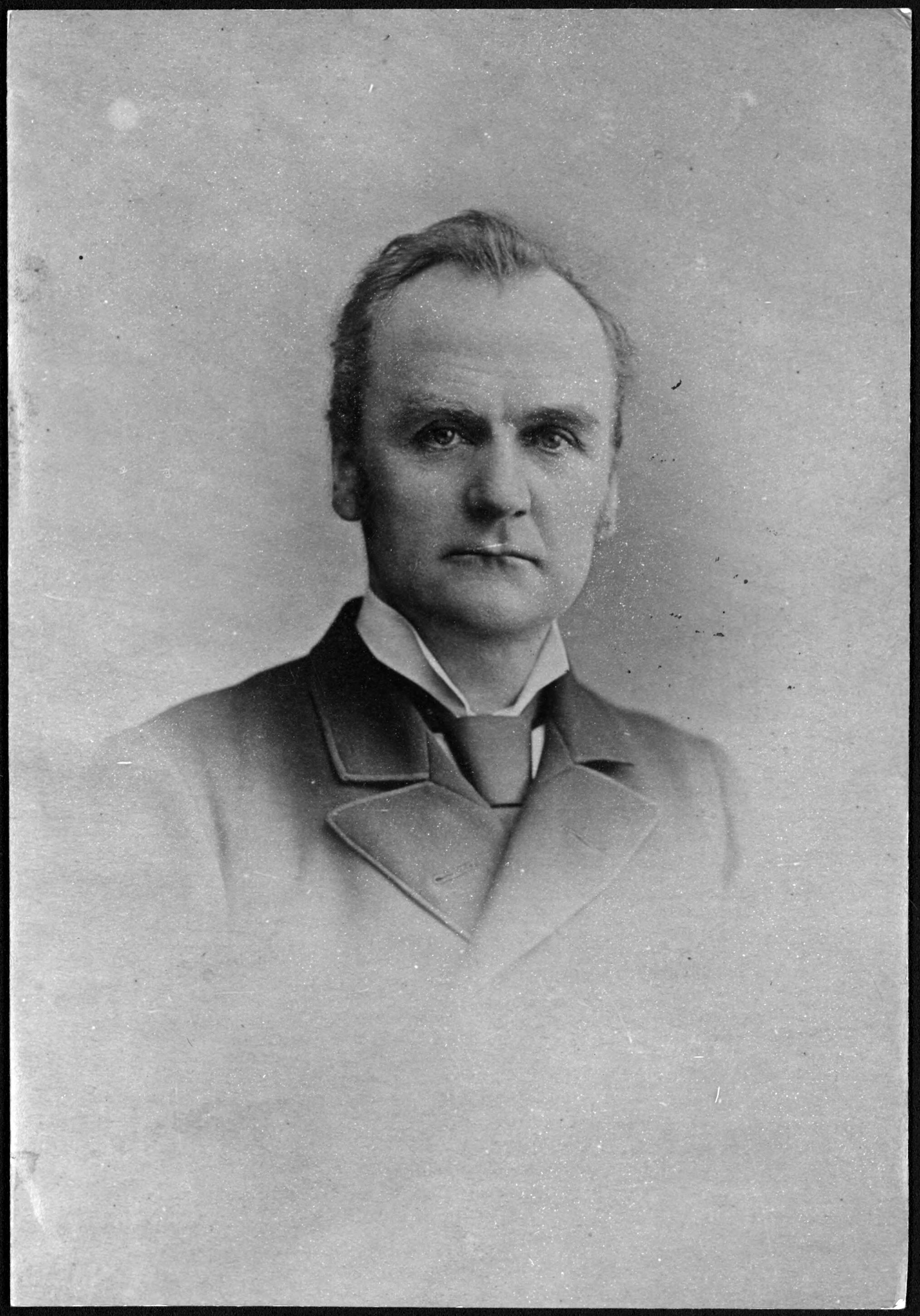 Australian politician Charles Mackellar